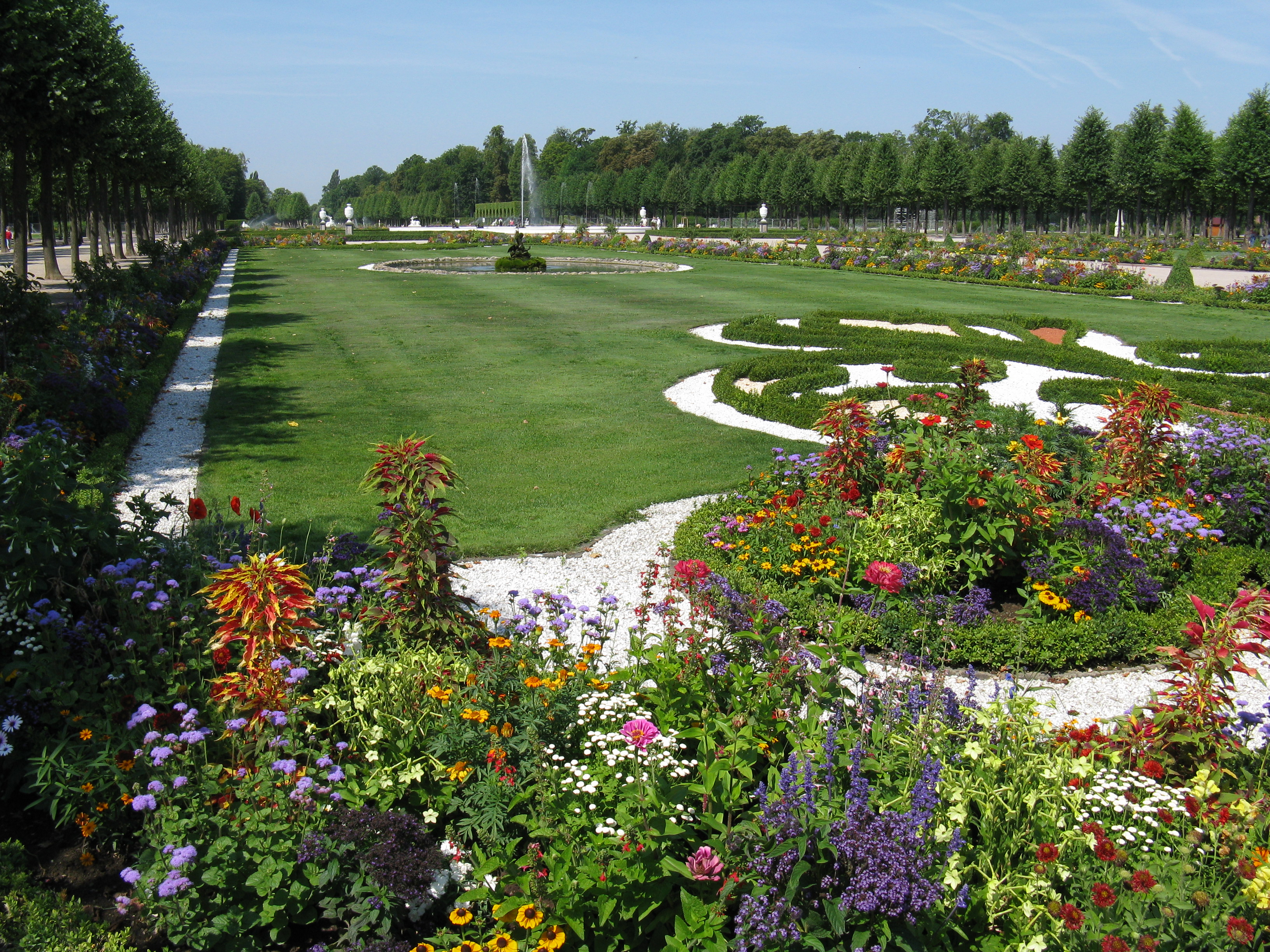 Schwetzingen, Germany, palace garden